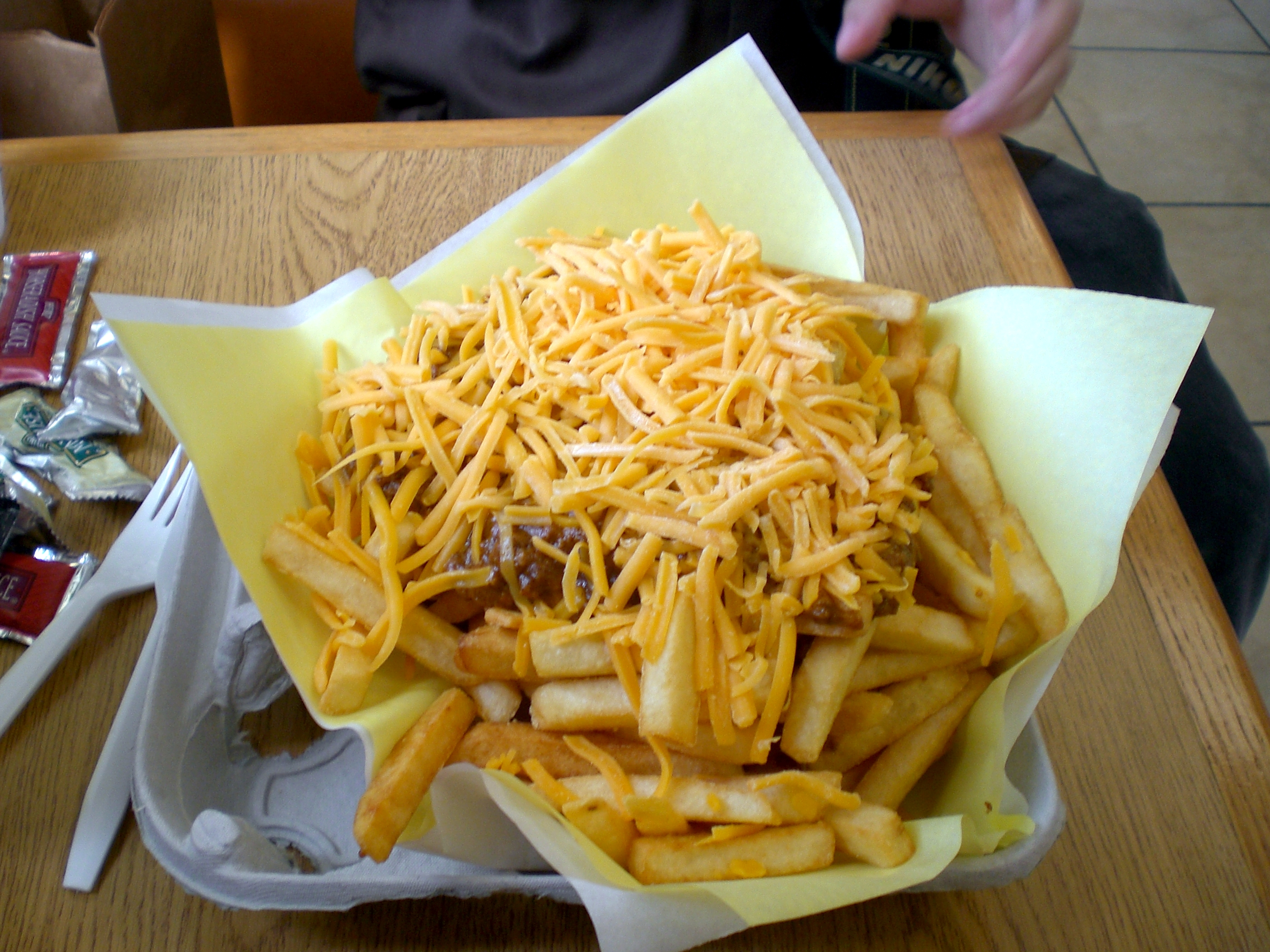 The Hat in Rancho Cucamonga California